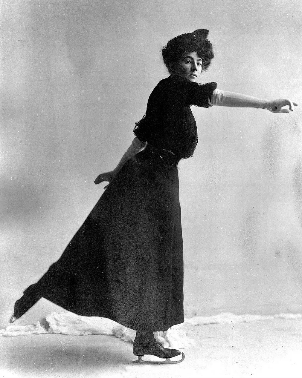 Madge Syers as pictured in Irving Brokaw's book The Art of Skating.